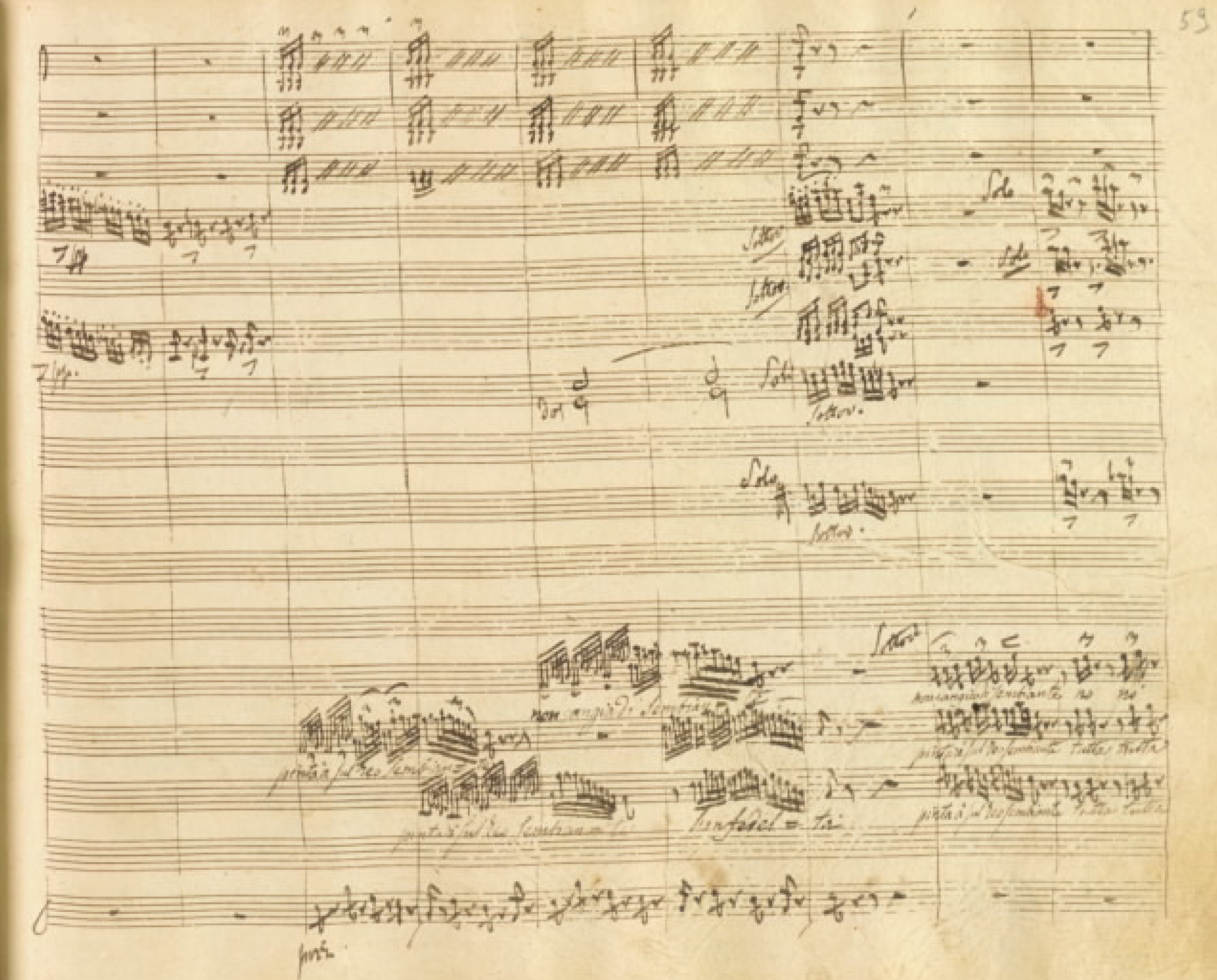 Rossini: Otello, Act II, terzetto Desdemona - Otello - Iago, detail: "...non cangia di sembiante...", (from: fs ms ca 1850, Biblioteca del Conservatorio "S. Pietro a Majella" di Napoli) ) - p. 122